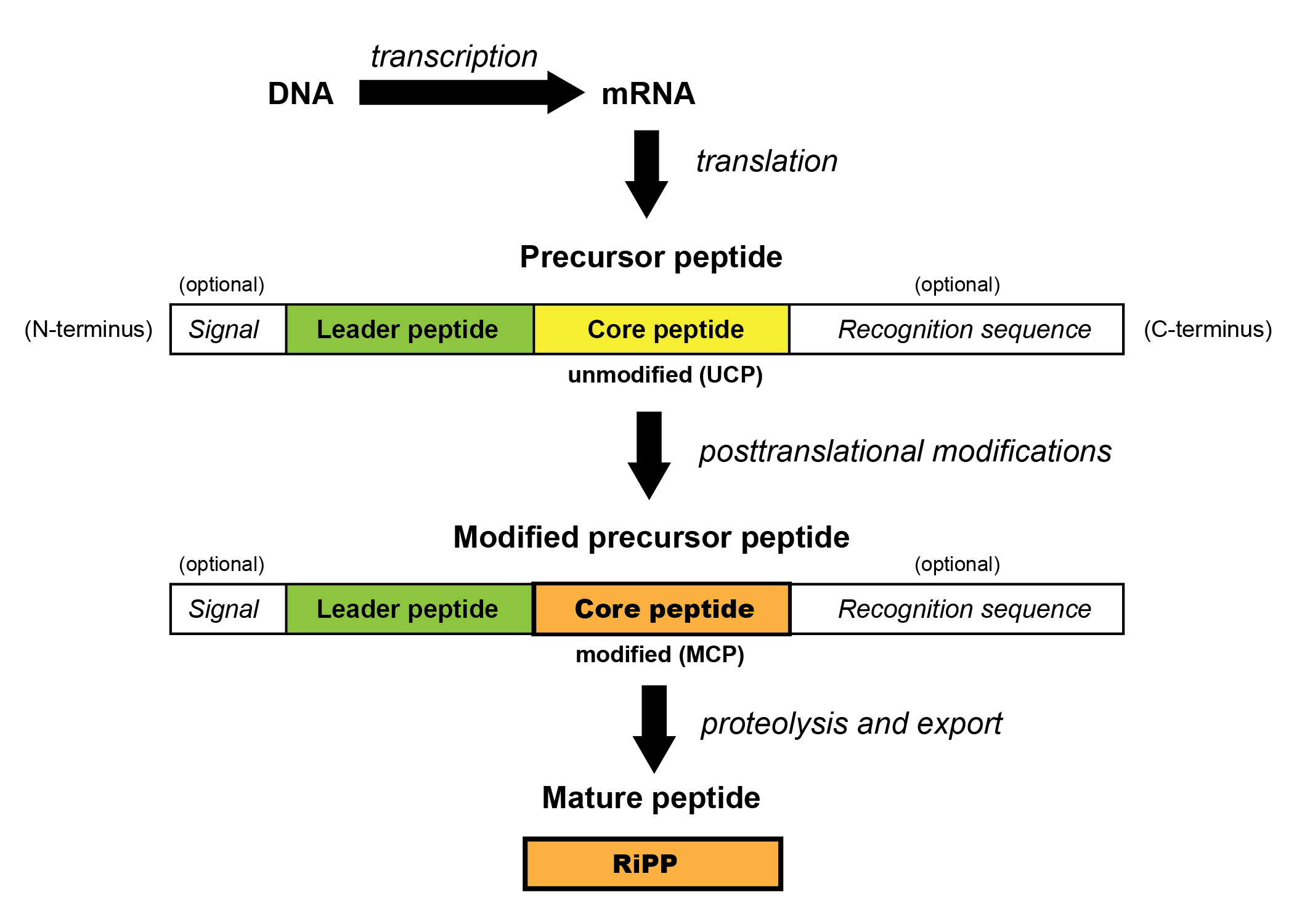 A general biosynthetic pathway for RiPP natural products is shown. After normal transcription/translation from a gene, the precursor peptide is processed by enzymes. After modification of the core peptide, the remainder of the precursor peptide is removed, resulting in the mature RiPP. This diagram is consistent with the general biosynthesis across all classes of RiPPs.